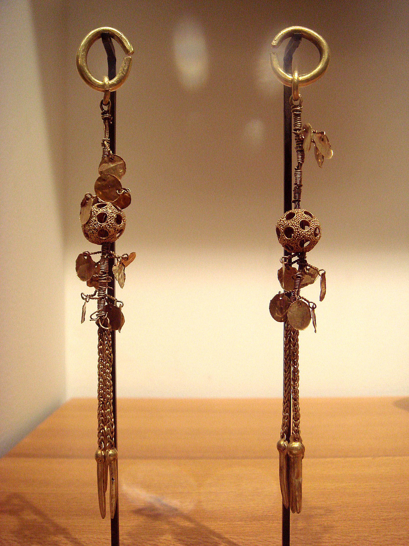 Earings from the Chinese Northern Wei Dynasty, 5th century